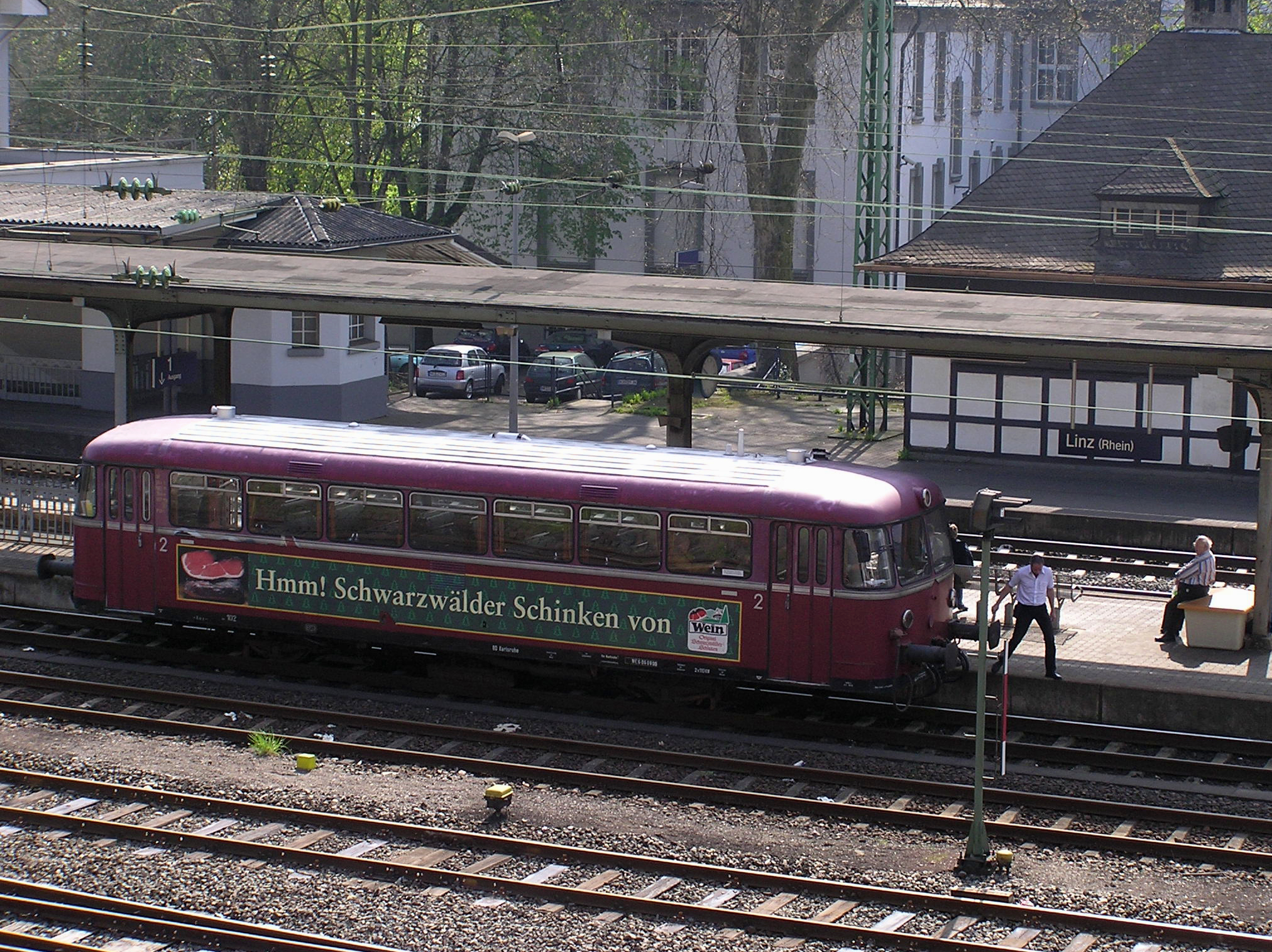 The railcar of the Kasbachtal railway at the train station in Linz, Germany.